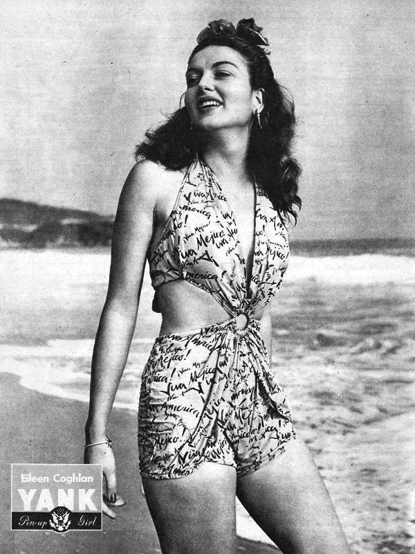 Pin-up photo of Eileen Coghlan [1] for Yank, the Army Weekly, a weekly U.S. Army magazine fully staffed by enlisted men.